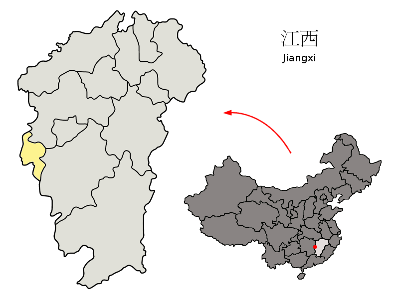 Location of Pingxiang Prefecture (yellow) within Jiangxi Province of China Map drawn in december 2007 using various sources, mainly : Jiangxi Province administrative regions GIS data: 1:1M, County level, 1990 Jiangxi Counties map from